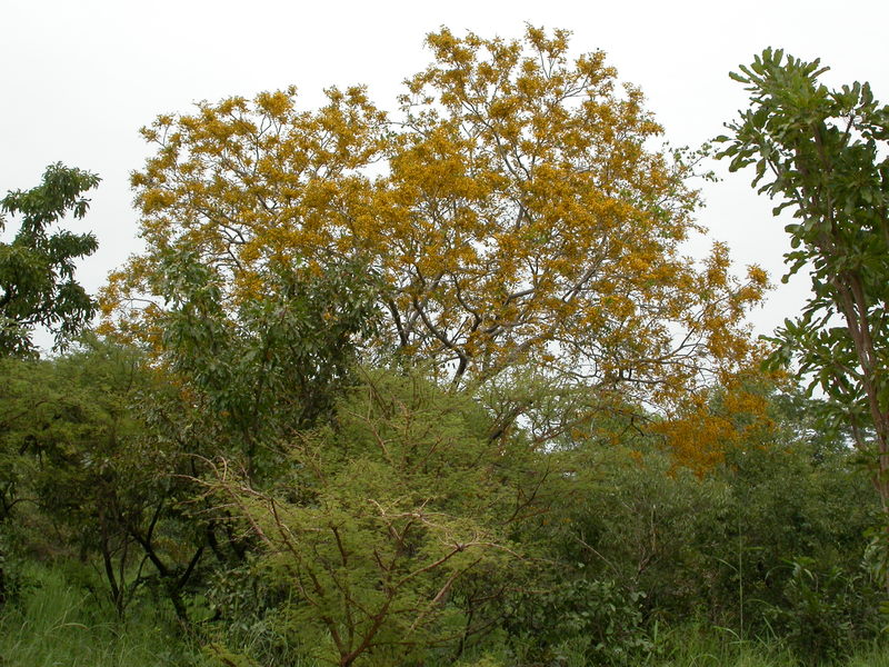 flowering Pterocarpus erinaceus in SW Burkina Faso